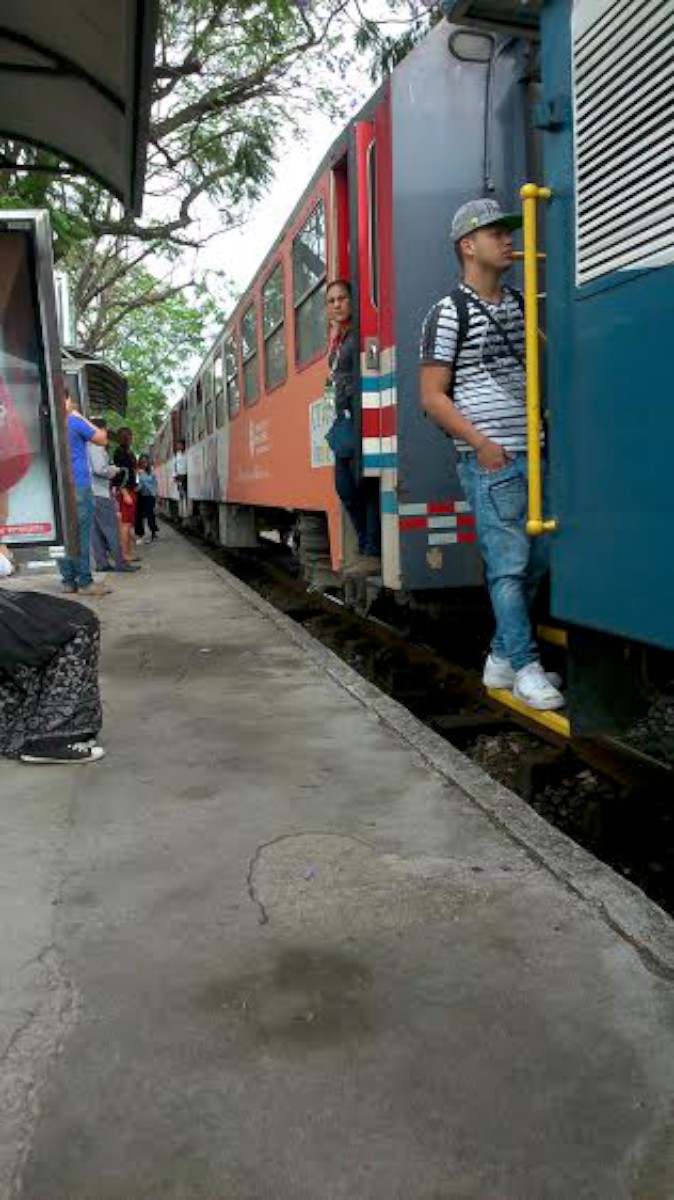 Locomotive hauled wagons arriving into the Sabana-Contraloria station in San Jose, Costa Rica, with some passengers eager to alight.